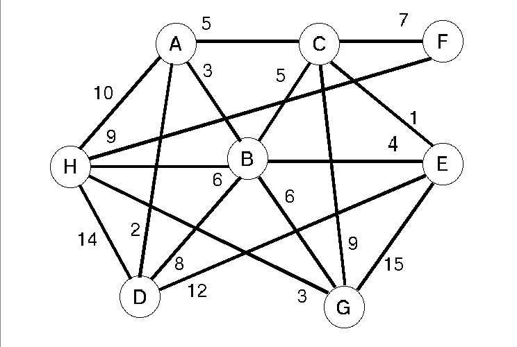 A common graph